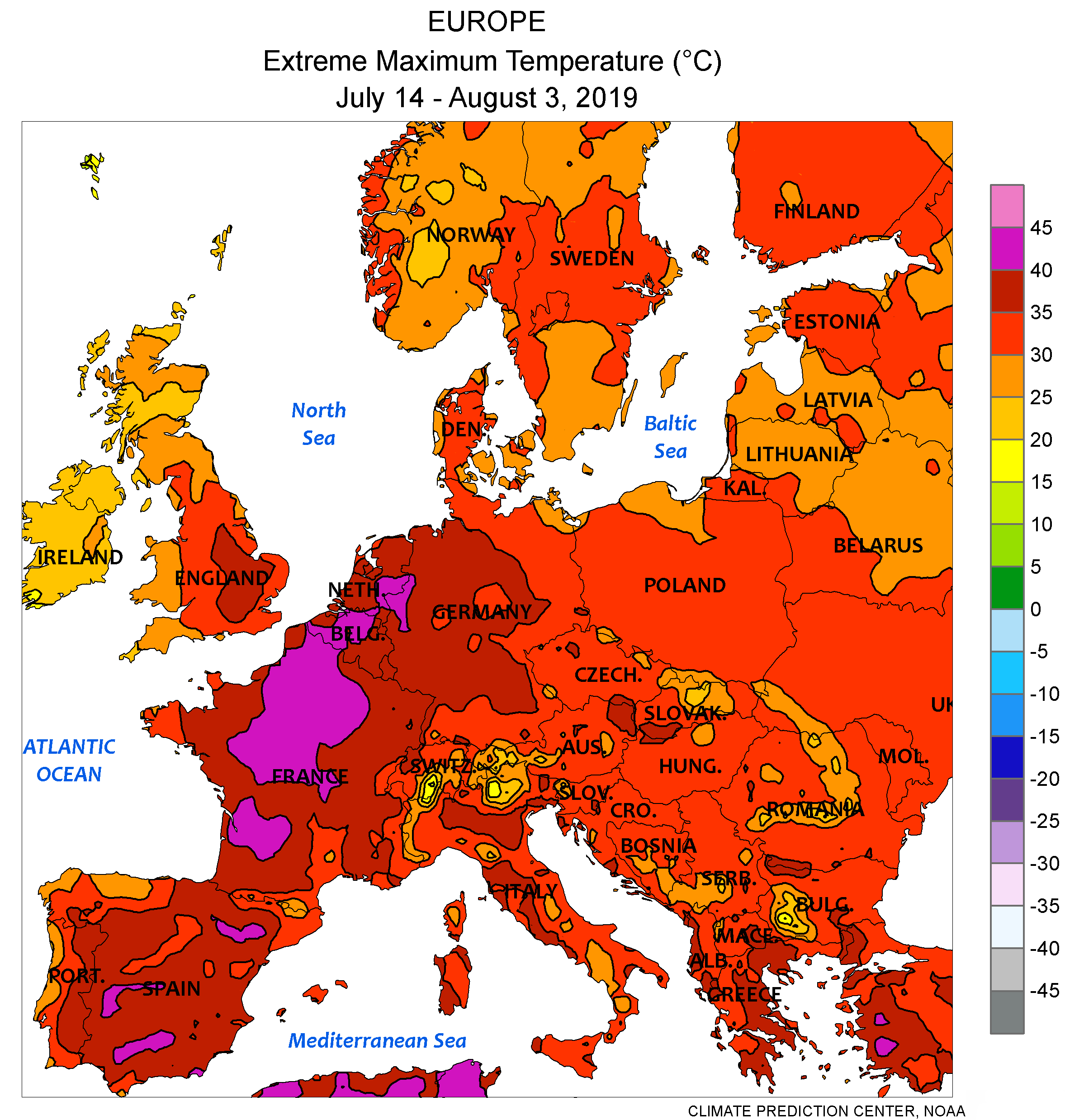 Europe: Extreme maximum temperature July 14 - August 3 2019, computer generated contours, based on preliminary data; 3 weeks combined (cropped); Second 2019 European heat wave.